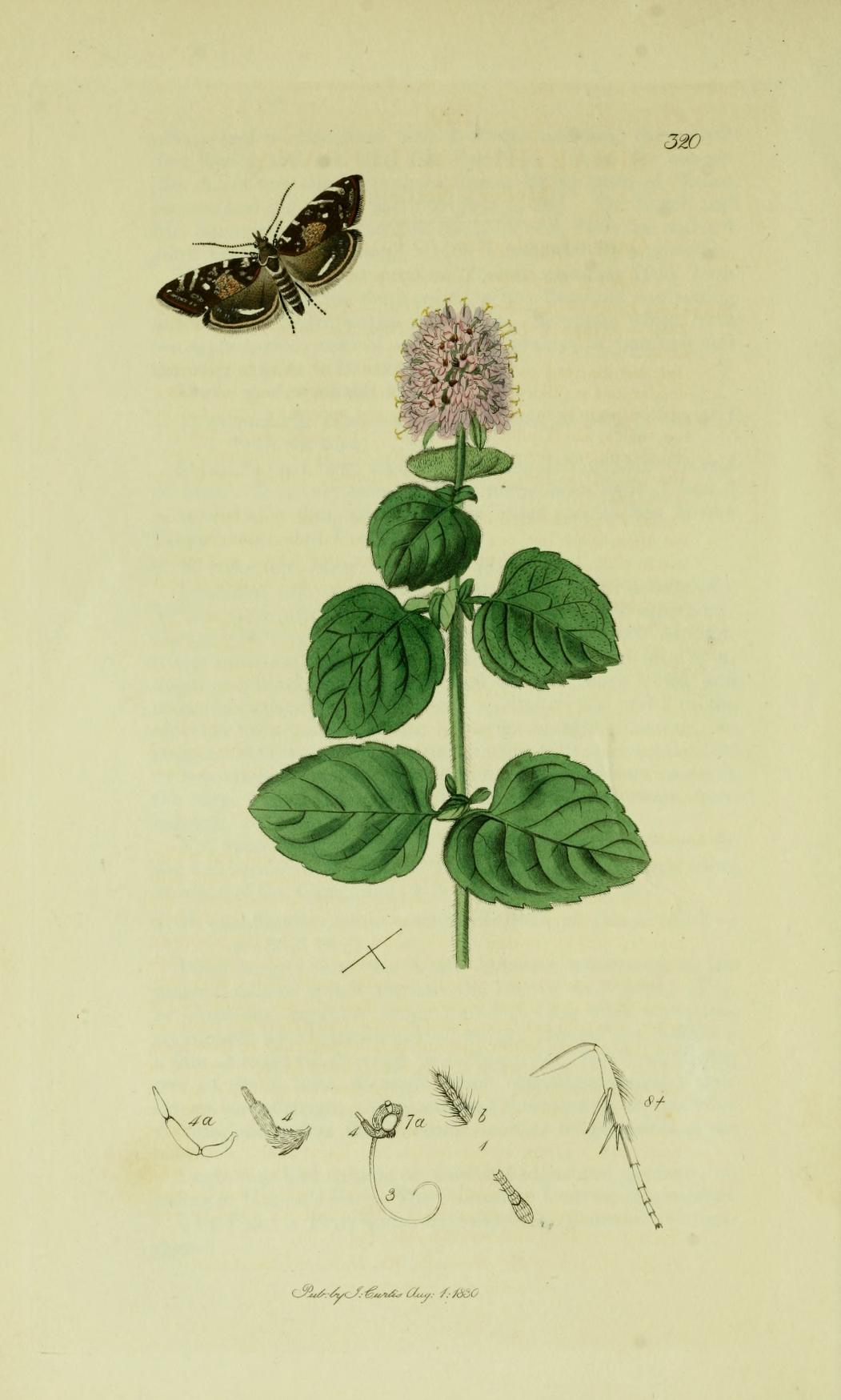 An illustration from British Entomology by John Curtis. Lepidoptera: Simaethis myllerana or Choreutis myllerana (Miller’s Nettle-tap).